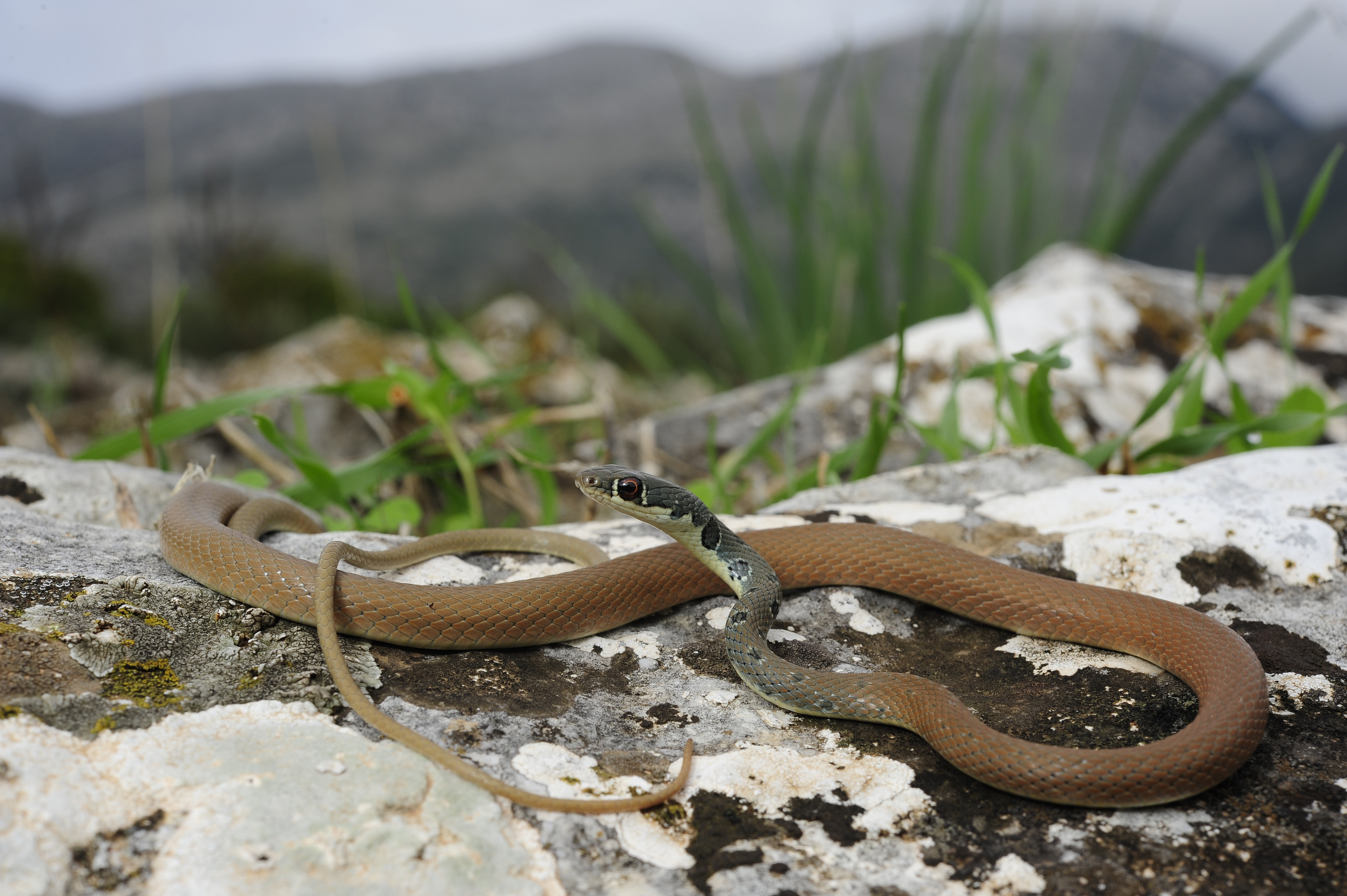 Dahls Whip Snake (Platyceps najadum dahli) from Peloponnesus in Greece